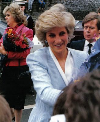 Princess Diana on a royal visit for the official opening of the community centre on Whitehall Road, Bristol in May 1987.